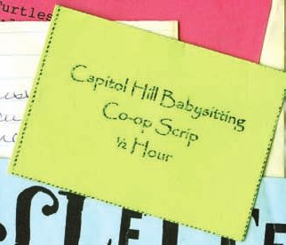 Scrip from the Capitol Hill Baby-Sitting Co-op. Text reads: Capitol Hill Babysitting Co-op Scrip ½ Hour